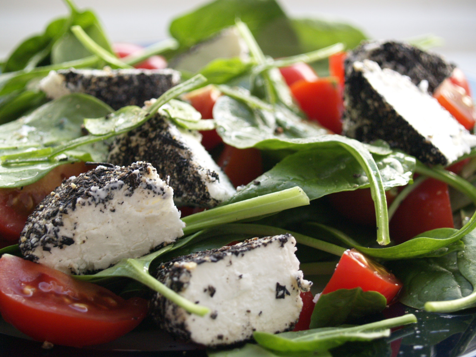 Salad of spinach, plum tomatoes, goat cheese and walnut oil